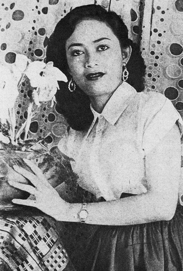 E. Zaenah